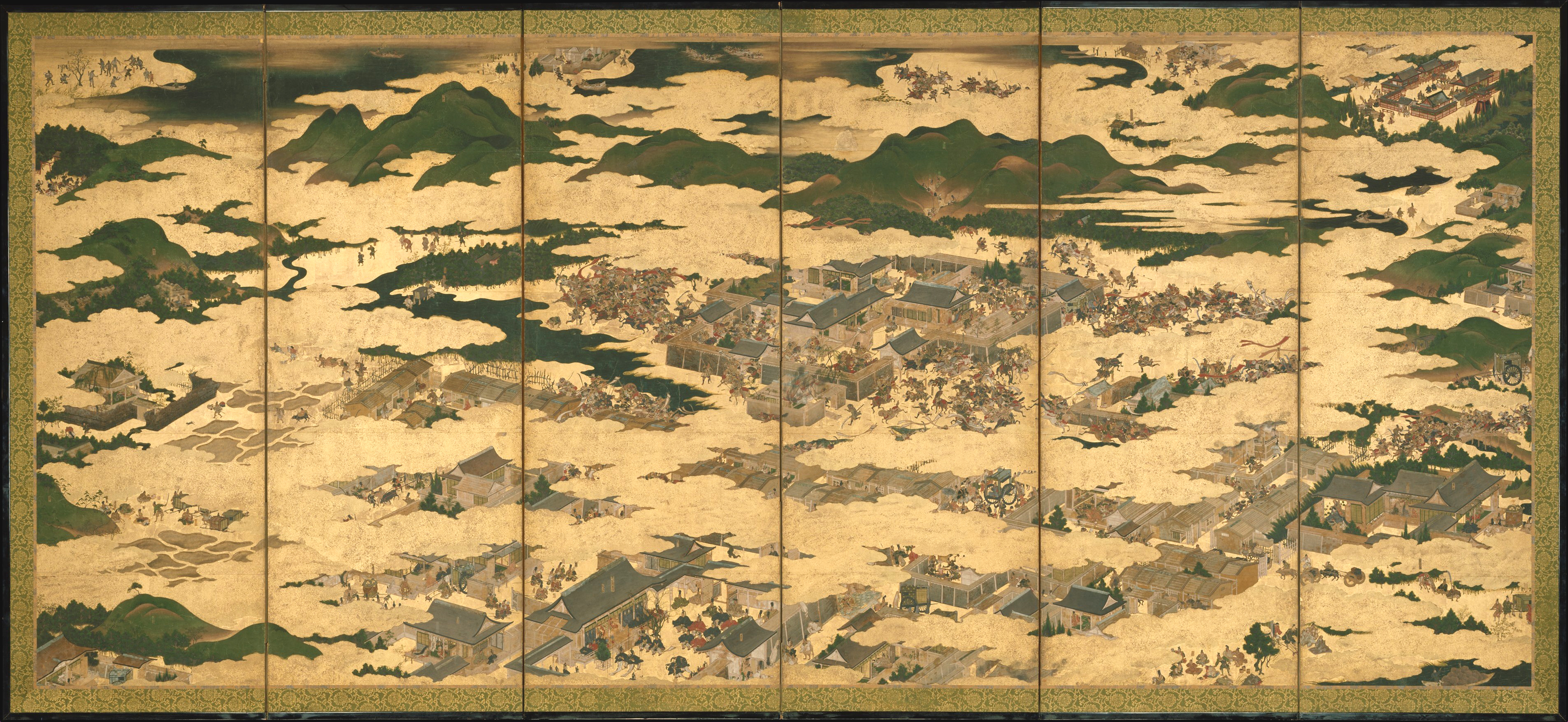 “The Rebellions of the Hogen and Heiji Eras,” Edo period (1615–1868), 17th century. Progressing from right to left, the screen illustrates a number of legendary fighting scenes as narrated in “The Tale of the Hogen Rebellion.” The rebellion, which occurred in central Kyoto in the summer of 1156, involved a dispute over succession between Emperor Go-Shirakawa and former Emperor Sutoku.